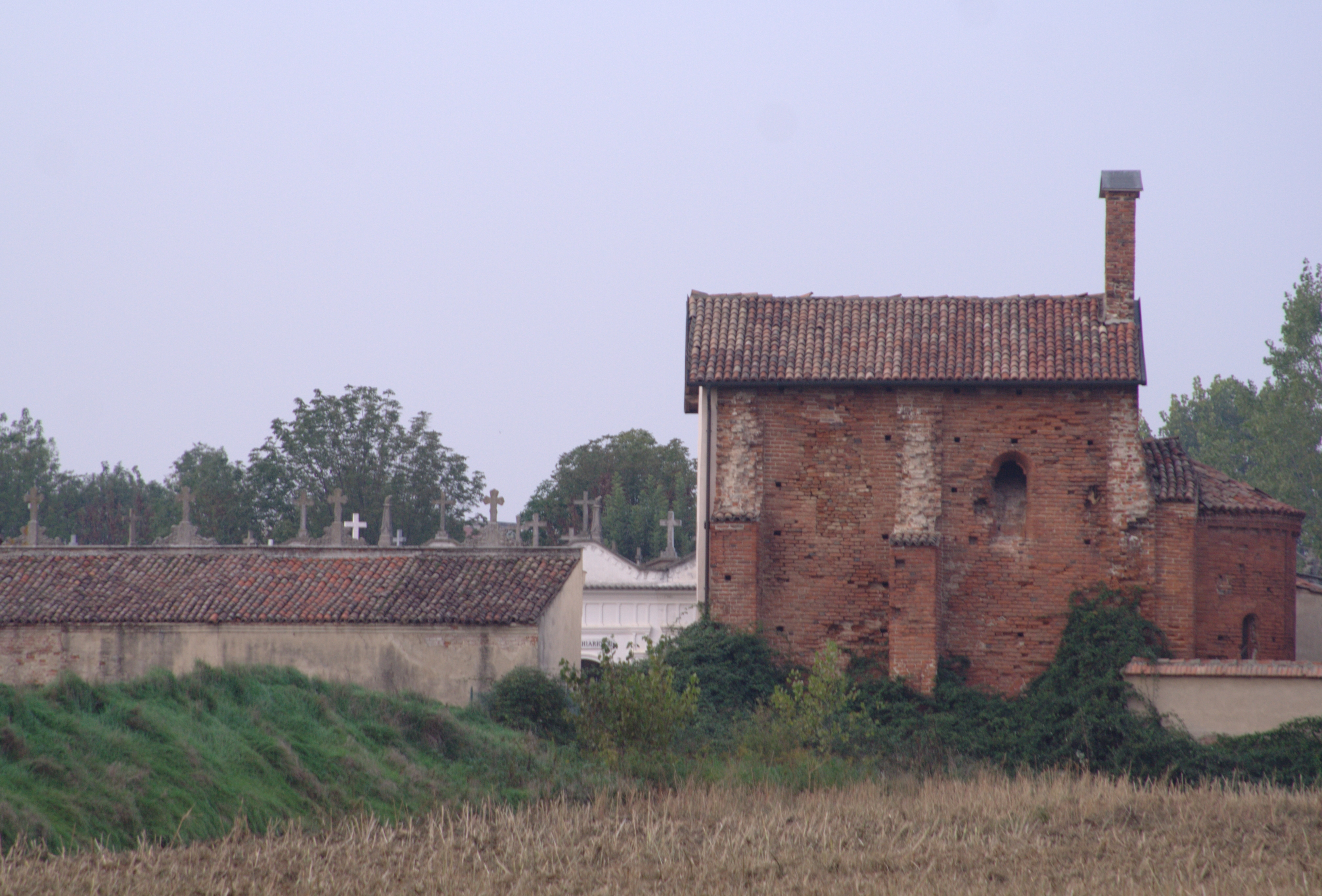 The most ancient church near the cemetary of the village of Bassignana